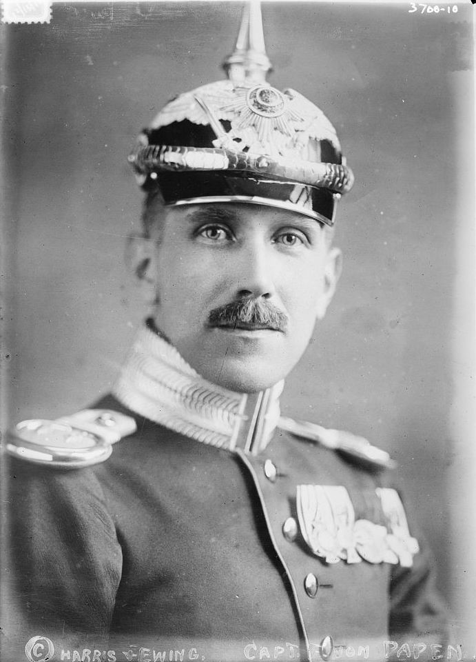 Franz von Papen circa 1915 in helmet